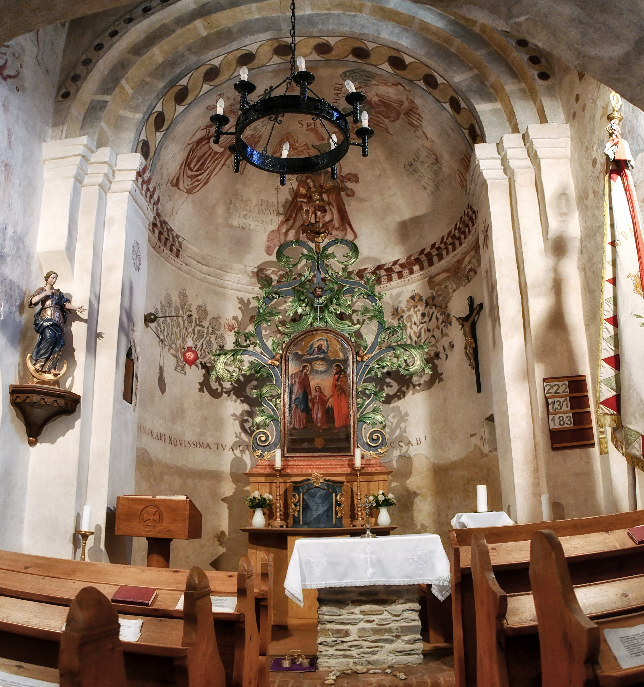 The St. Michael's Church in Csempeszkopács, Hungary